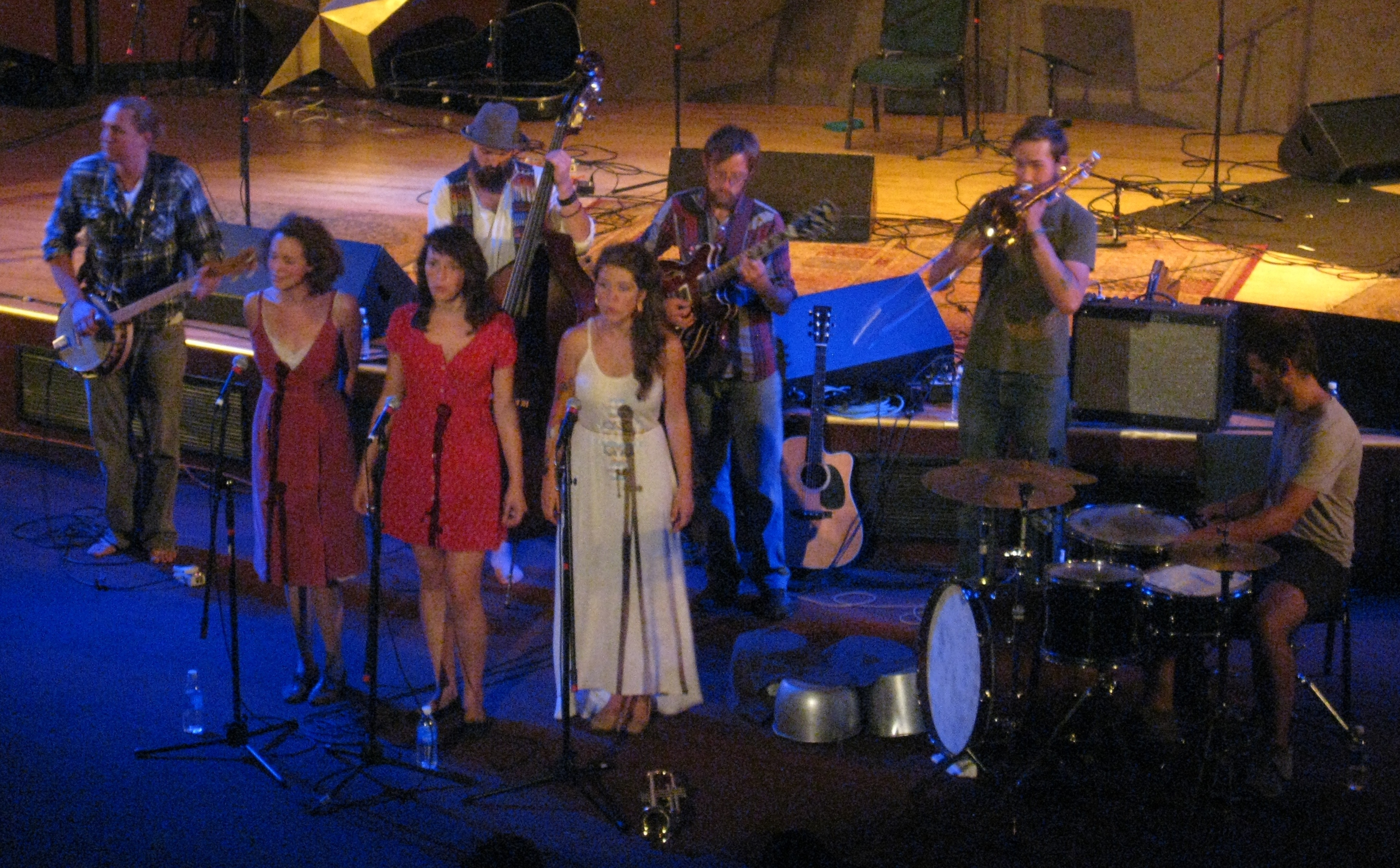 The band Paper Bird performing at Stargazers in Colorado Springs